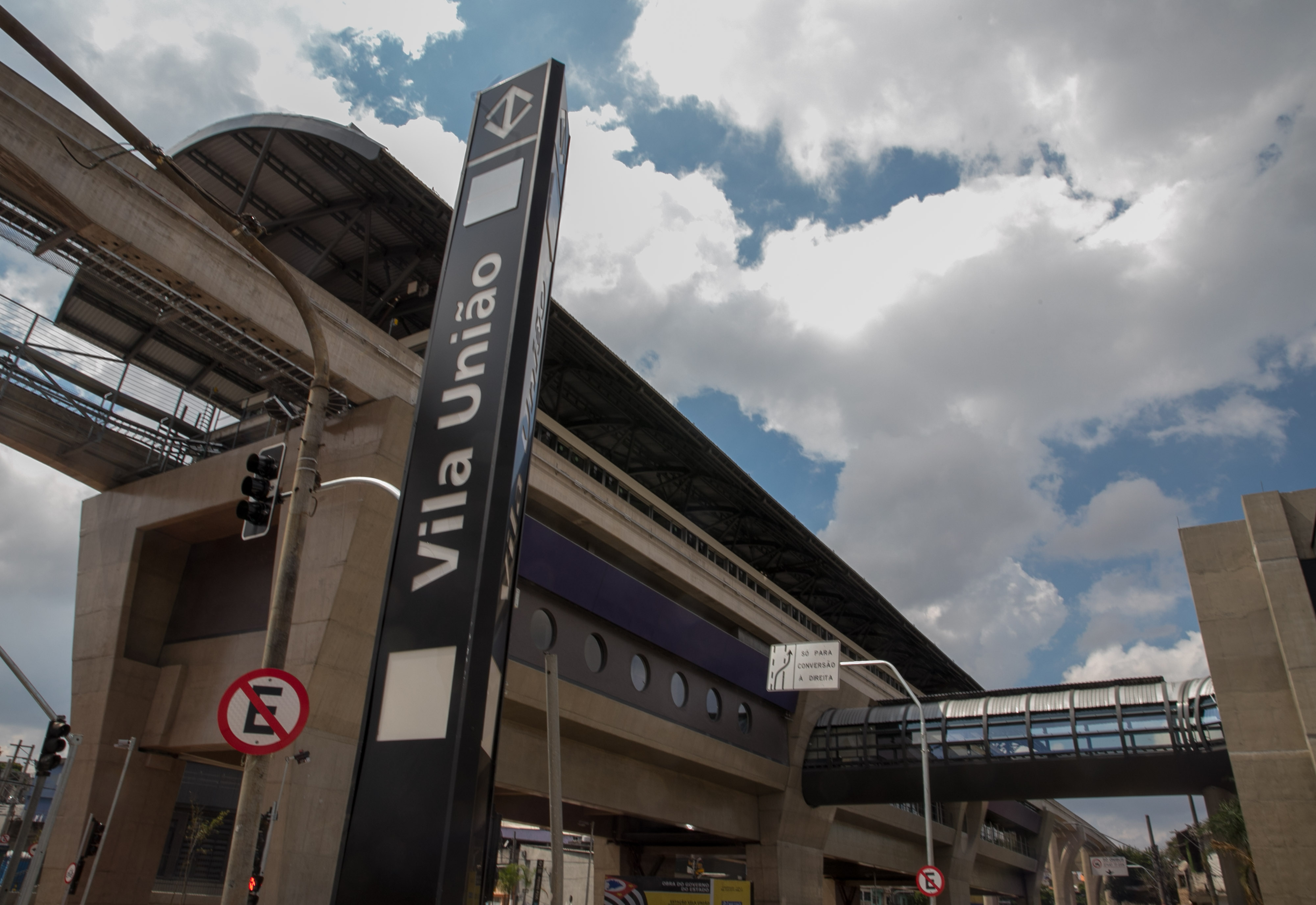 O governador do Estado de São Paulo, Geraldo Alckmin, entrega de quatro estações da Linha 15 Prata do Monotrilho. Local: São Paulo/ SP Data: 06/04/2018 Foto: Governo do Estado de São Paulo